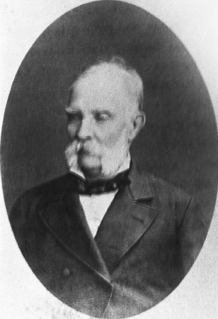 Dimitrios Vafiadakis (1804-1898): Mayor of Ermoupolis, Greece